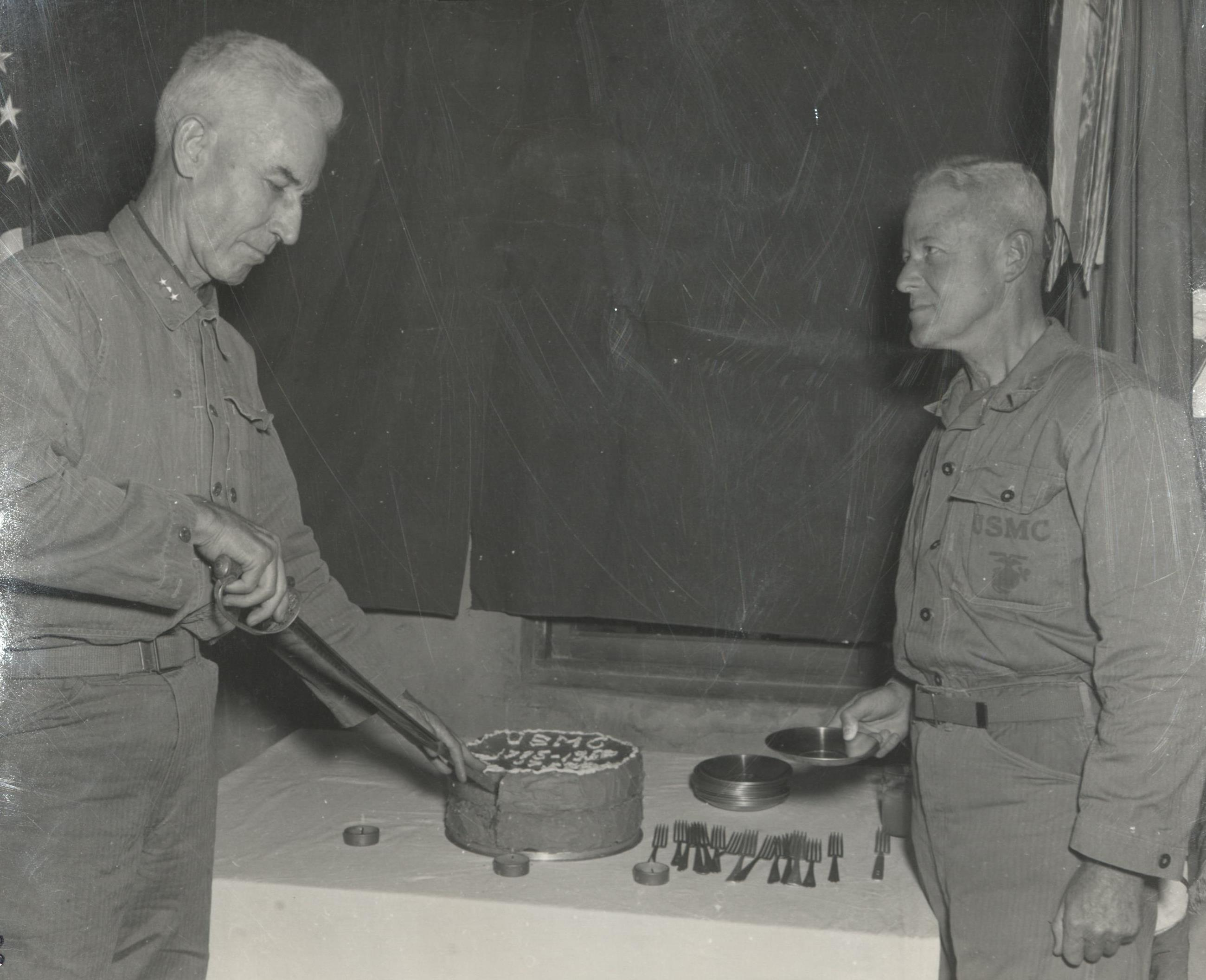 "10 November 1950. Cake cutting at Division Headquarters at Hungnam. Left to right: Major General Oliver P. Smith and Brigadier General Edward A. Craig." From the Oliver P. Smith Collection (COLL/213), Marine Corps Archives & Special Collections OFFICIAL USMC PHOTOGRAPH